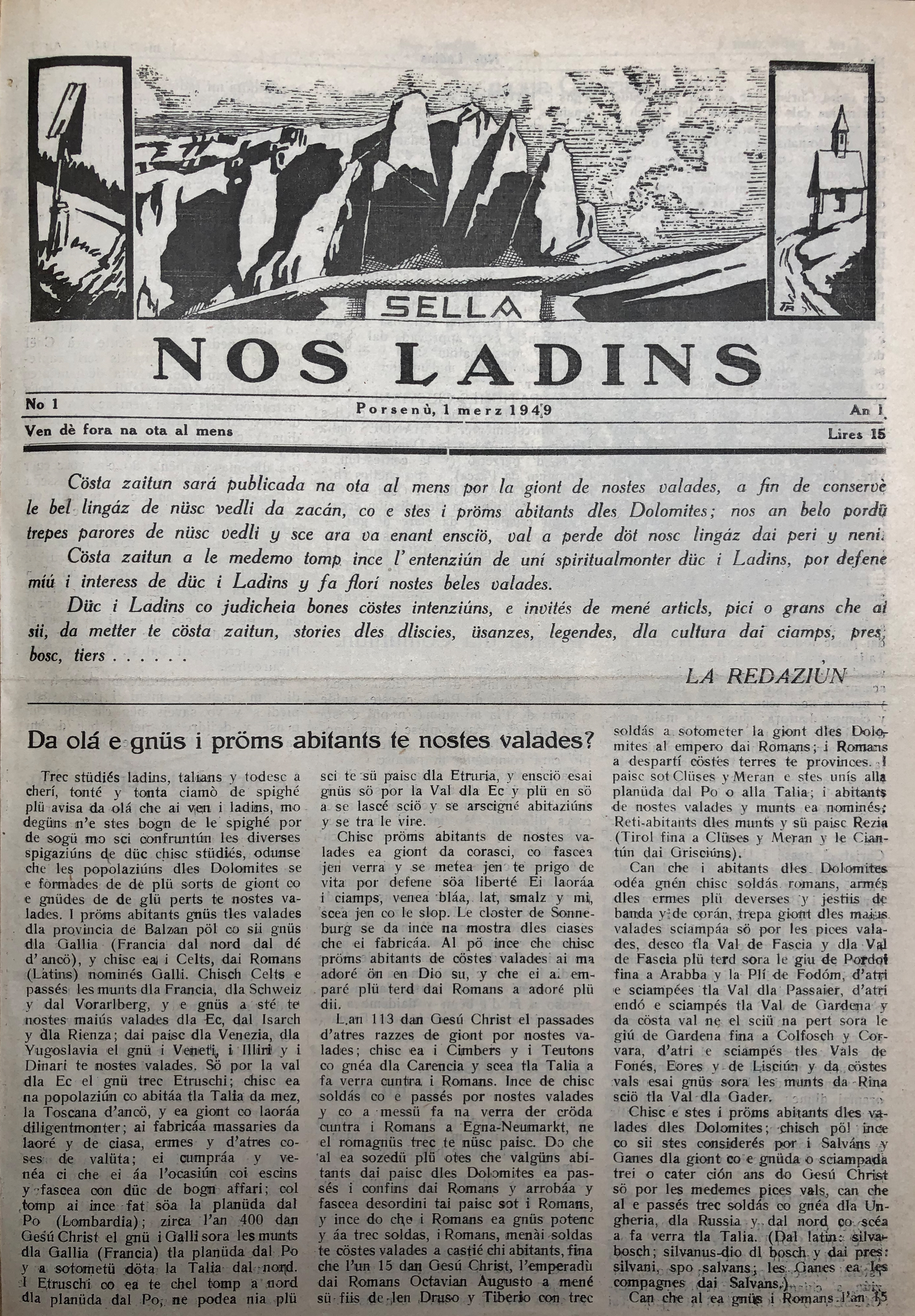 Firt page of first edition of the local newspaper Nos Ladins March 1, 1949.